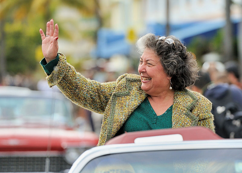 Matti Herrera, Mayor of Miami Beach, FL at the 2012 Miami Beach Art Deco weekend.